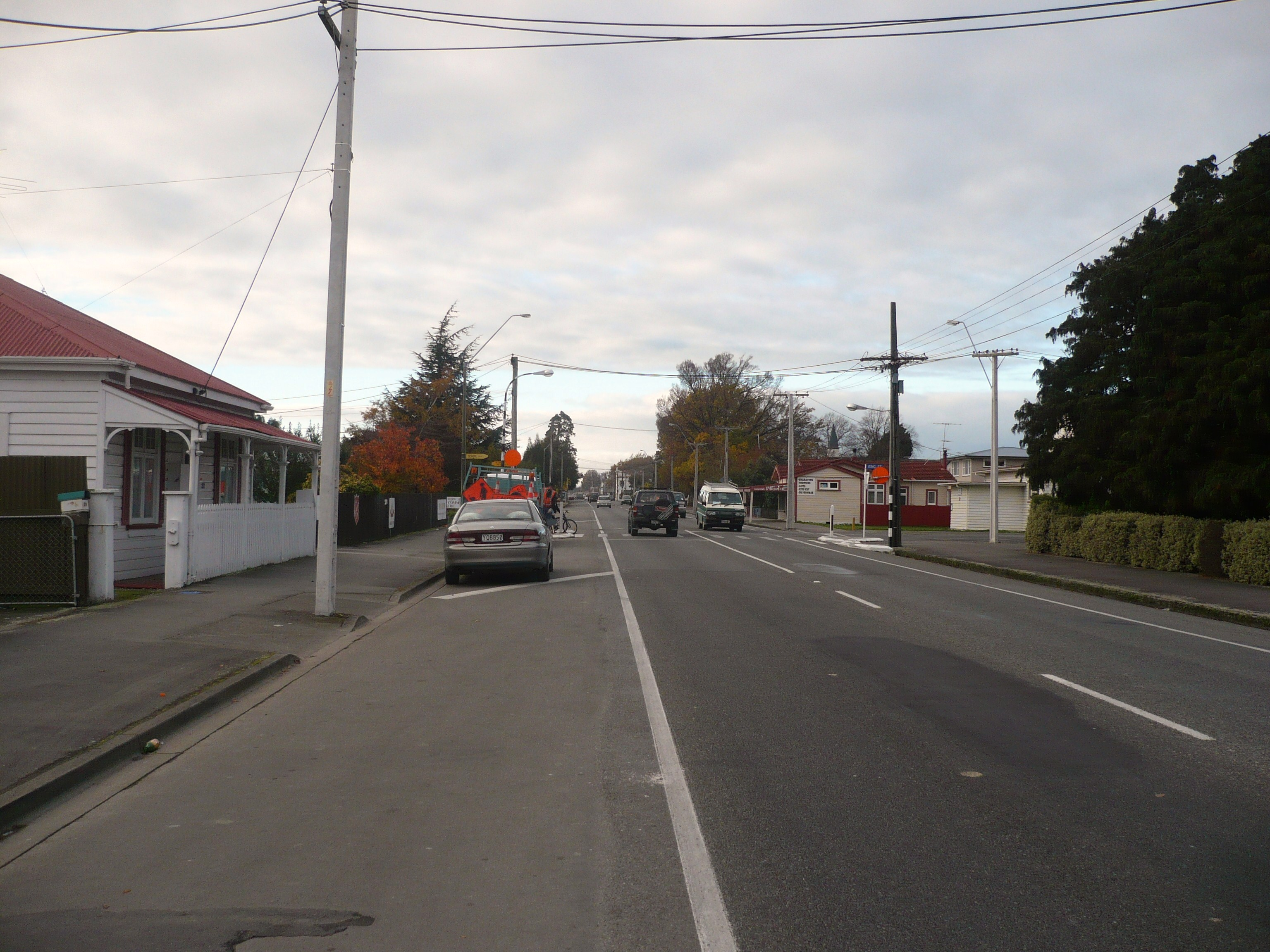 High Street South (State Highway 2) in Carterton, New Zealand, looking north towards the town centre